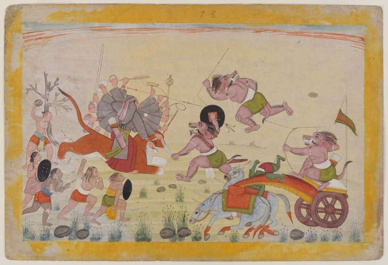 This painting coming from a series illustrating the Devi Mahatmya shows a pivotal battle between Durga and a powerful demon named Mahasura.